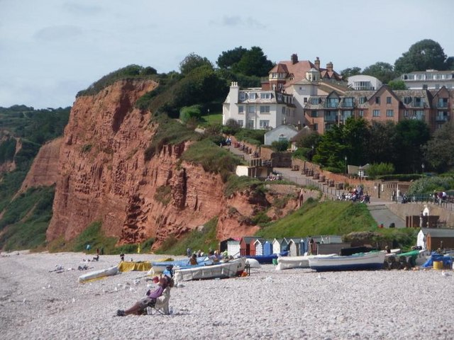 Budleigh Salterton: red cliffs Looking along the pebble beach at Budleigh, towards the dramatic red cliffs to the west. One of those buildings on the top, either the extreme end one or the highest one, is called Redcliff Court, rather aptly. Additional geologic information: The image shows the outcrop of the Budleigh Salterton Pebble Beds Formation overlain by the eolian facies of the basal Otter Sandstone Formation. --6r3tar550n (talk) 15:11, 30 October 2012 (UTC)